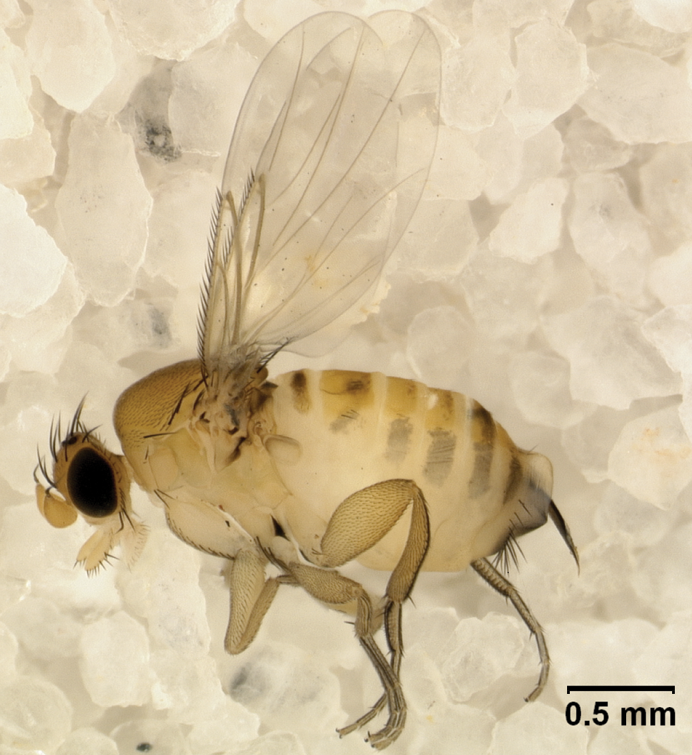 Adult female Apocephalus borealis.